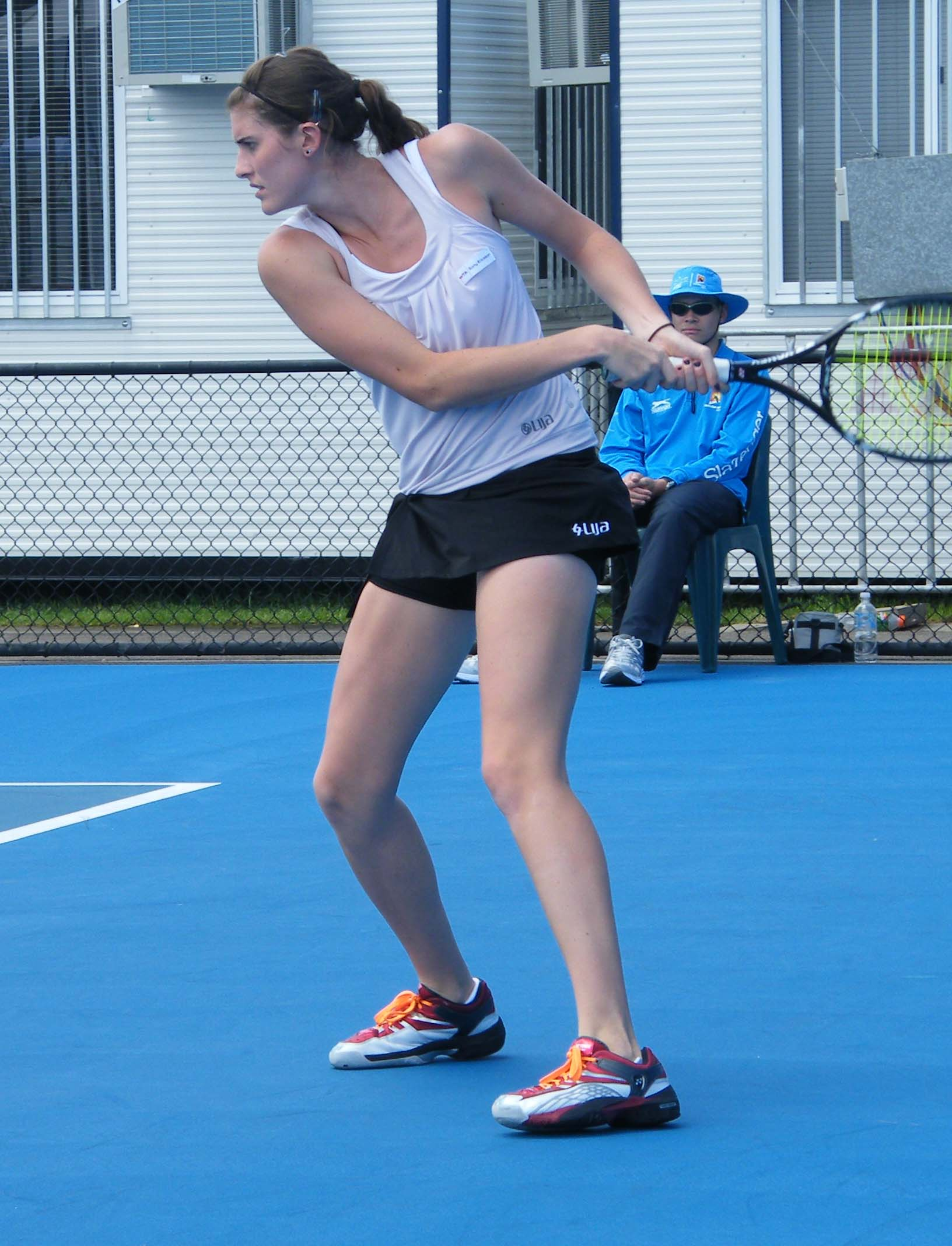 Rebecca Marino in Sydney (2011)